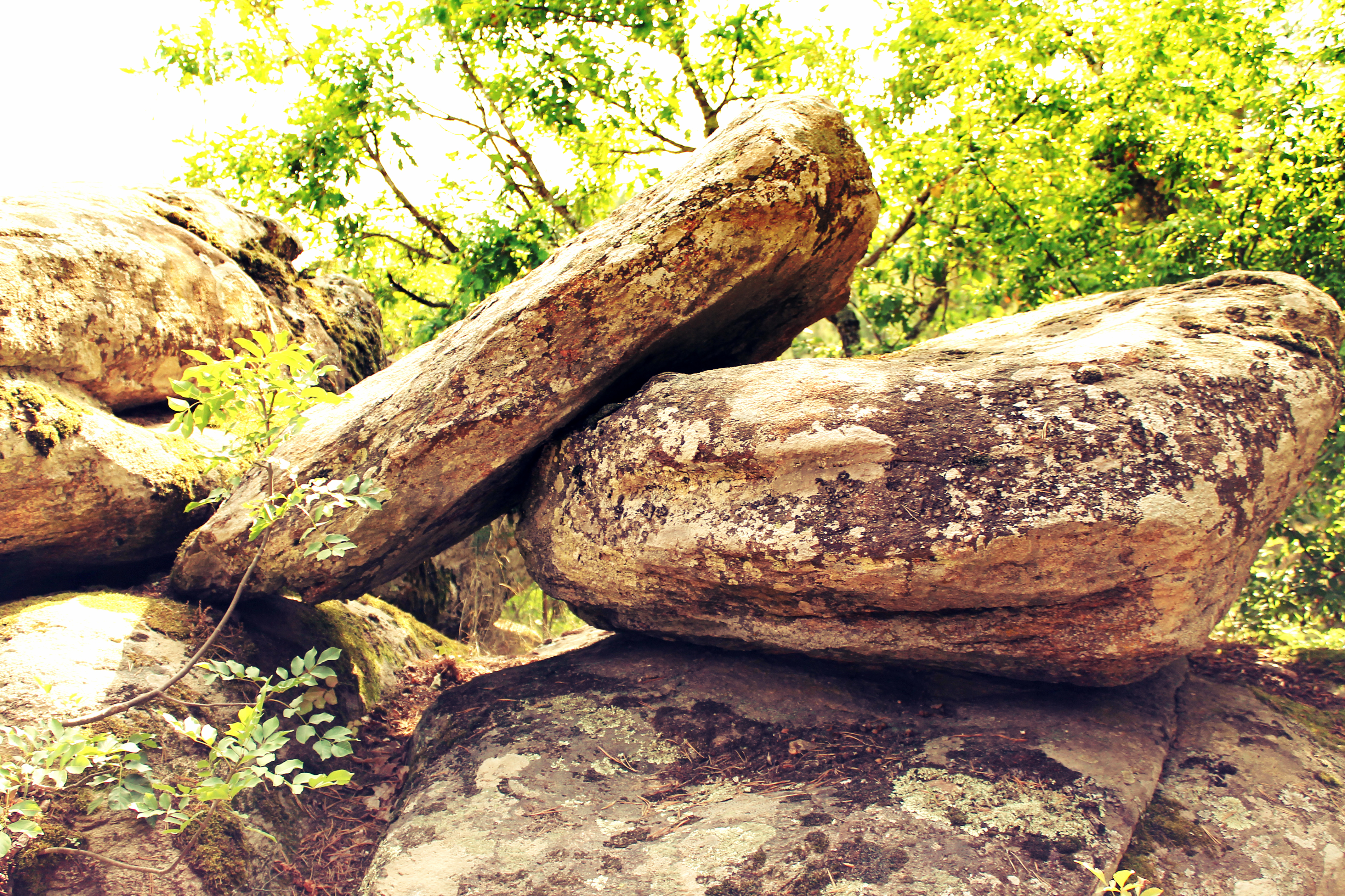 Arc_Gradishte_DolnoDryanovo_BG